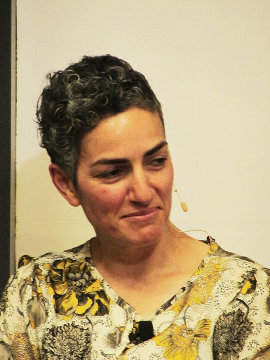 Annamarie Jagose, Head of the School of Letters, Art and Media at the University of Sydney